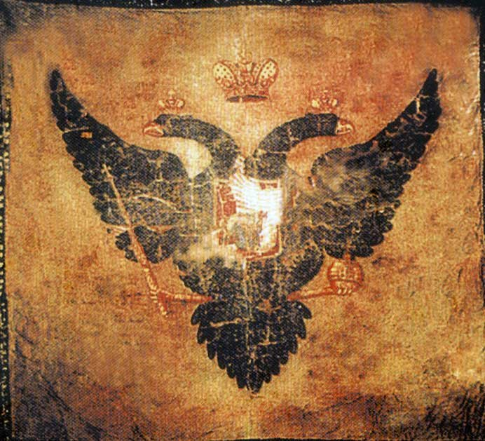 Banner with Russian insignia that was awarded to Mehdigulu Khan on order of Foreign Minister of the Russian Empire Andreas Eberhard von Budberg on 7 January, 1807 in name of emperor Alexander I of Russia.